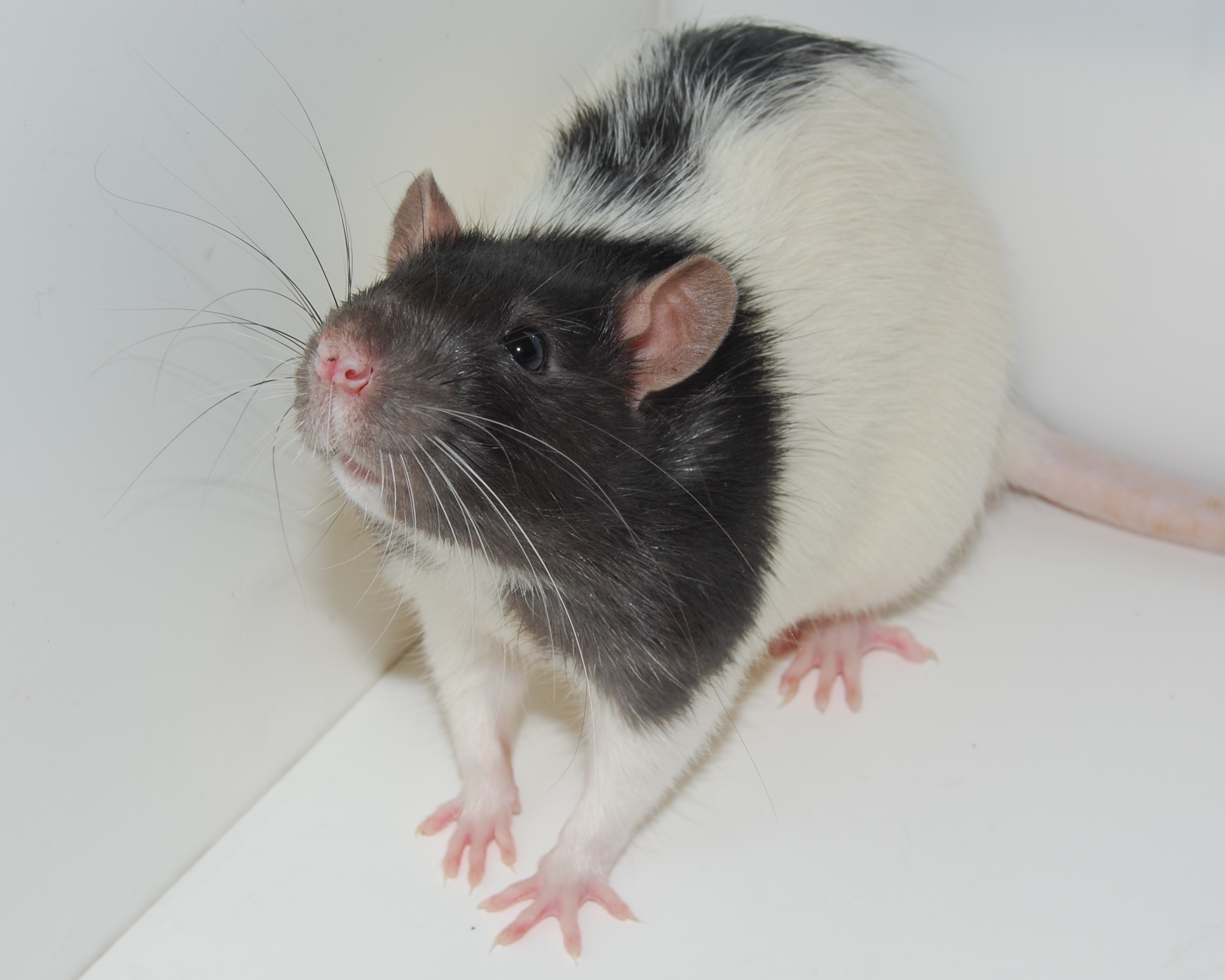 A photo of the mystacial whiskers (macrovibrissae) of the Hooded Lister Laboratory Rat